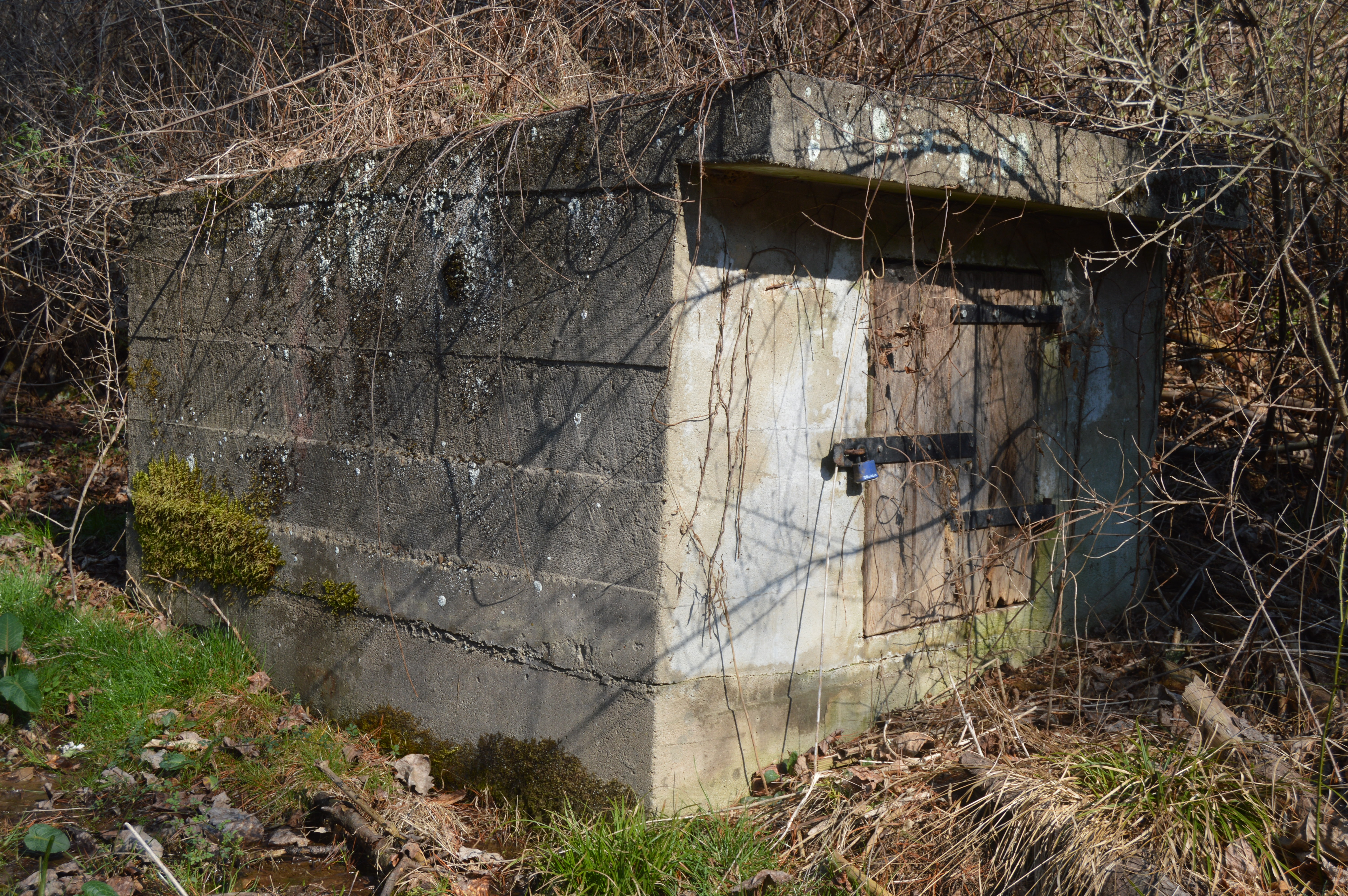 Two sides of the casing that houses one of the Carter Hydraulic Rams, a group of four hydraulic rams located along the Beaver Dam Creek Trail (a nature trail/community park) in Hillsville, Virginia, United States. Built in 1924, the rams are listed together on the National Register of Historic Places.